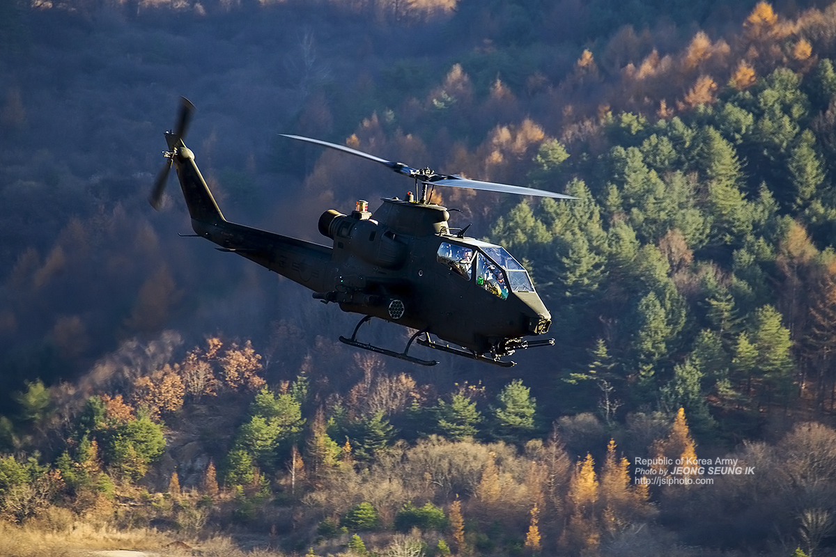 2012. 12 '탑 헬리건'을 향한 무한질주, 육군항공 사격대회 현장을 가다 Rep. of Korea Army Top Heligun